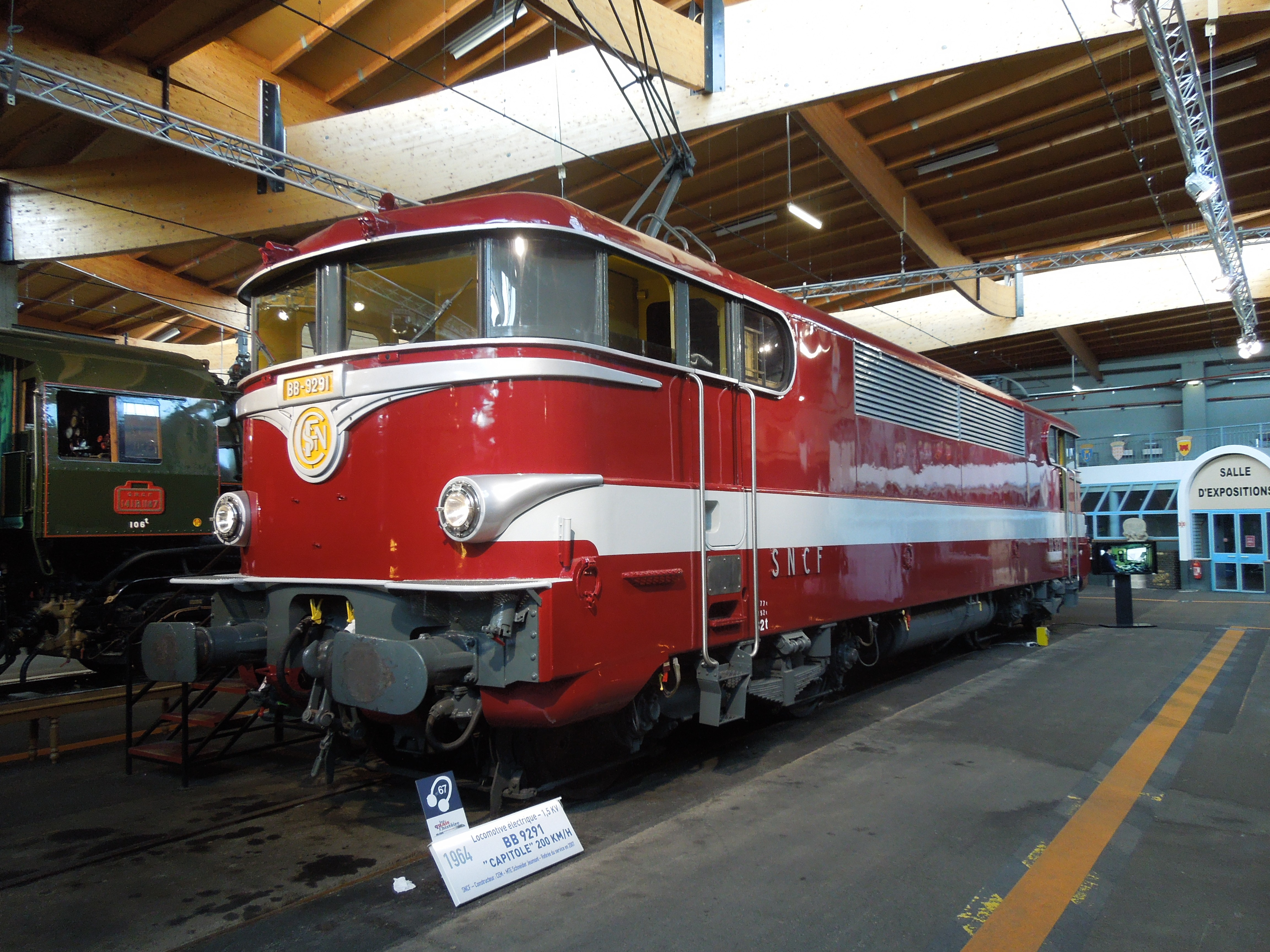 The Cité du train railway museum in Mulhouse